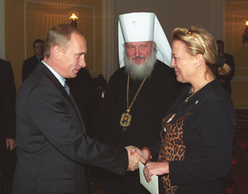 Vladimir Putin, Metropolitan Kirill, and Xenia Sheremetyeva-Yusupova.